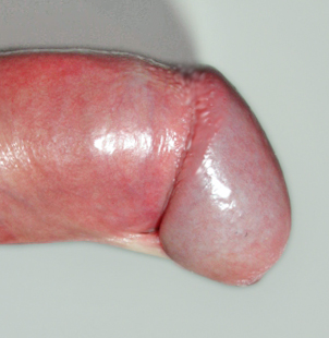 An image of the disorder Frenulum breve